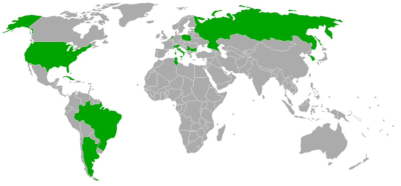 Volleyball at the 1996 Summer Olympics – Men's volleyball